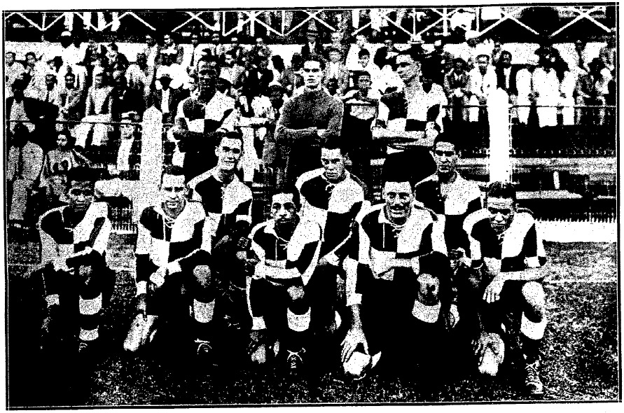 The Jamaicain XI in the final inter-colony match against Trinidad, back row: Pinkie Smith, Groves, Hadden ; (middle) Parke, Scott, Lopez ; (front) DaCosta, Sasso, DeLeon, Harvey, Kinkead.